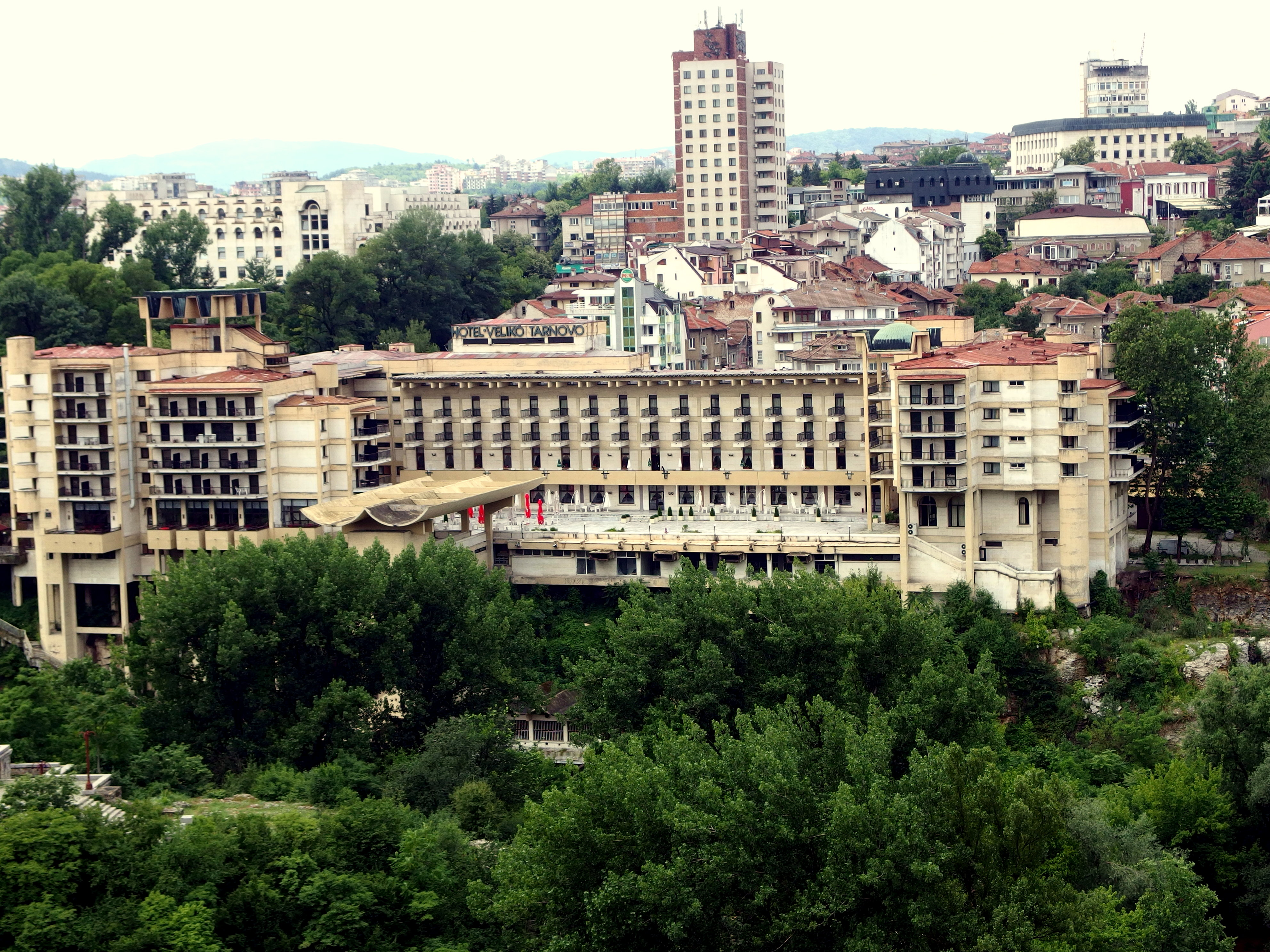 2014-06-20 in Veliko Tarnovo.